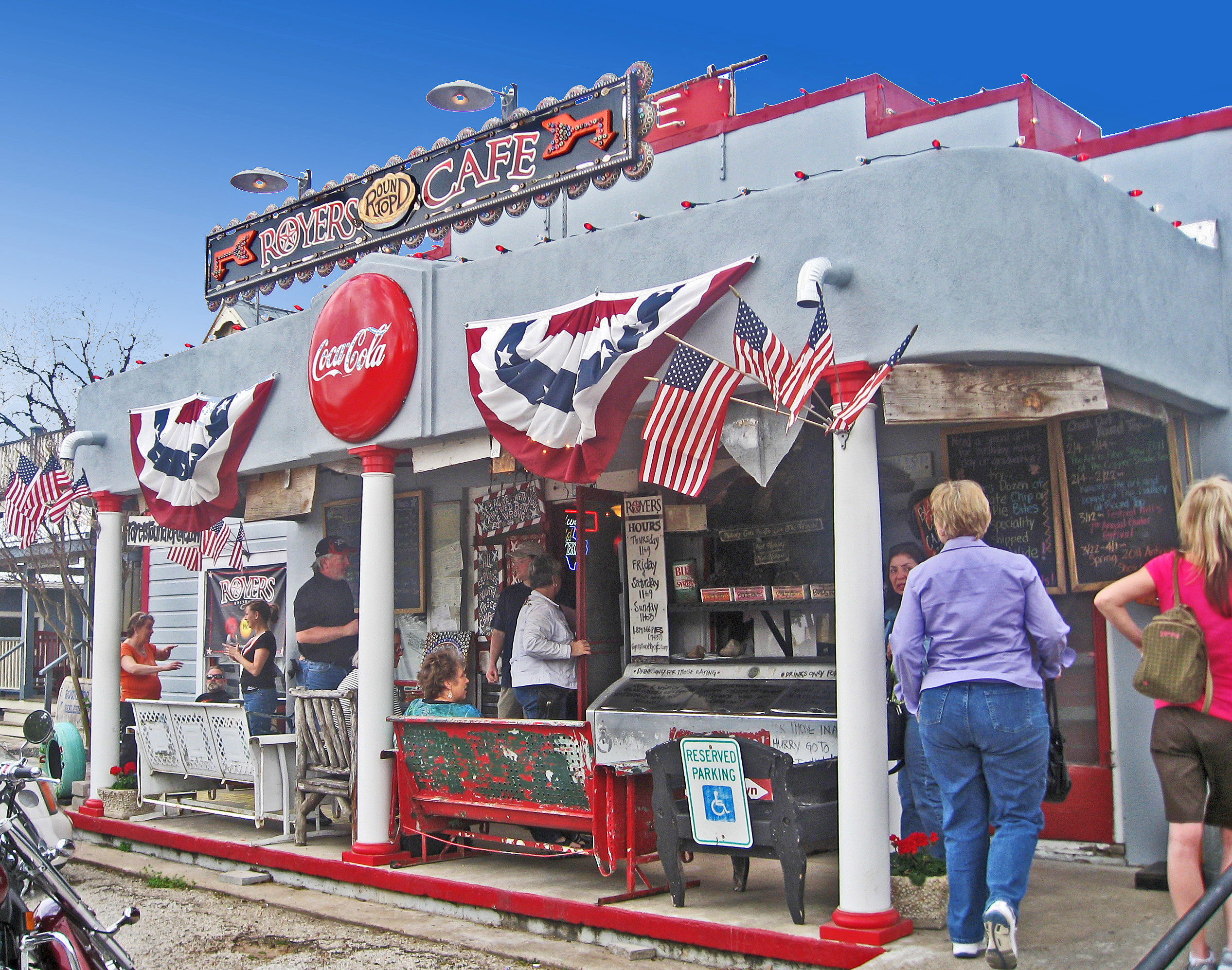 Royers Cafe. Where the elite meet to eat in Round Top